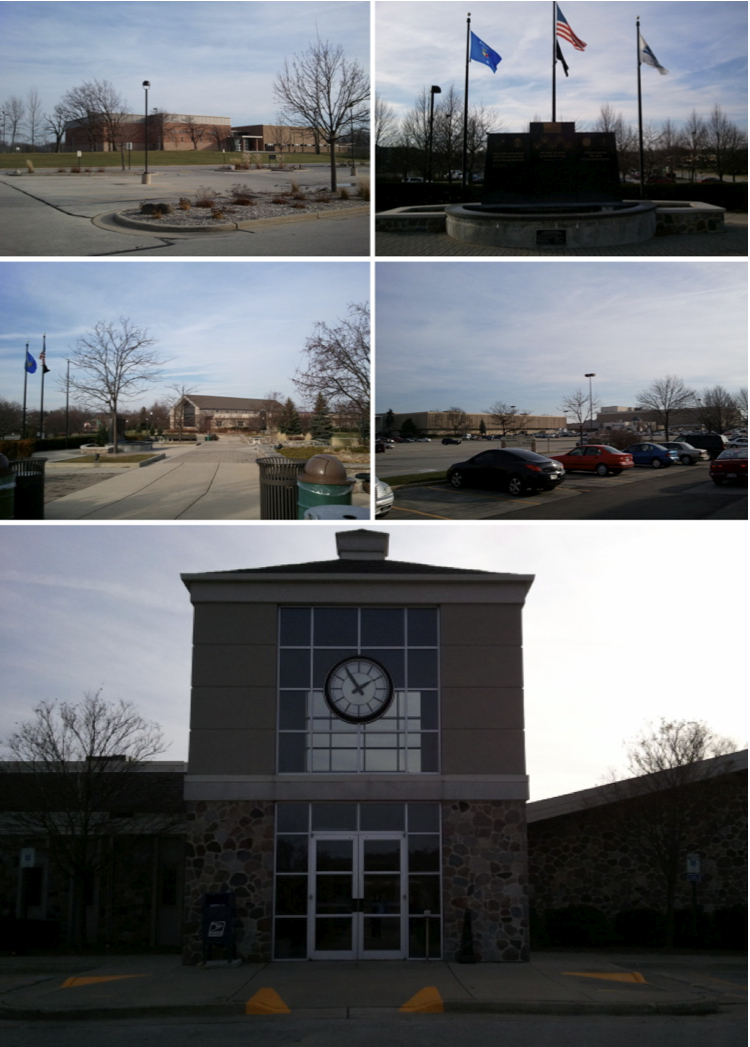 A collage of photos from Brookfield, Wisconsin. From Top left clockwise: Brookfield Square Mall, Veterans Memorial Fountain, City Hall, and Brookfield Central High School